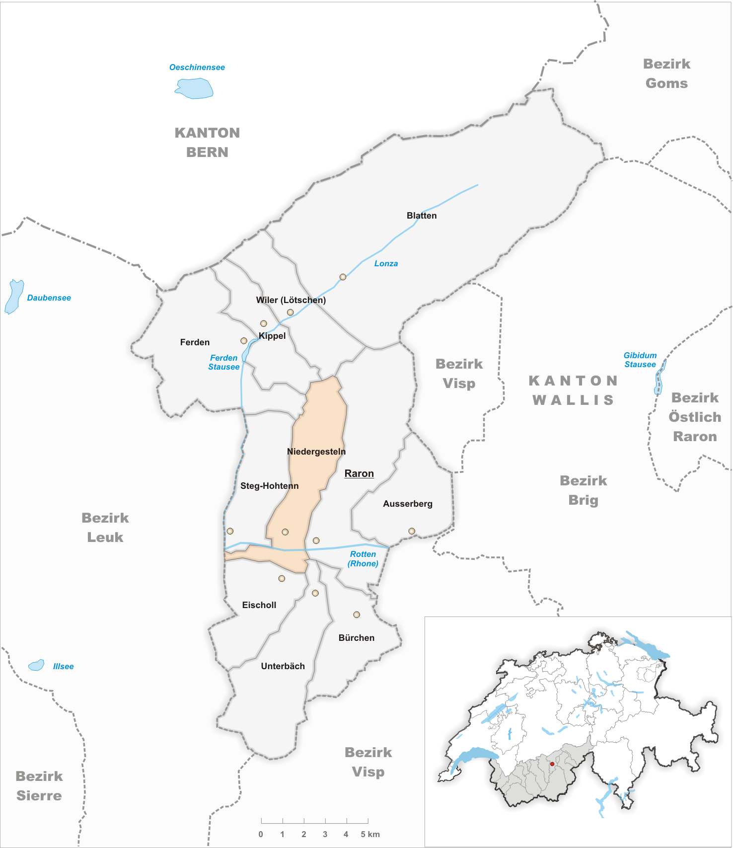 Municipality Niedergesteln